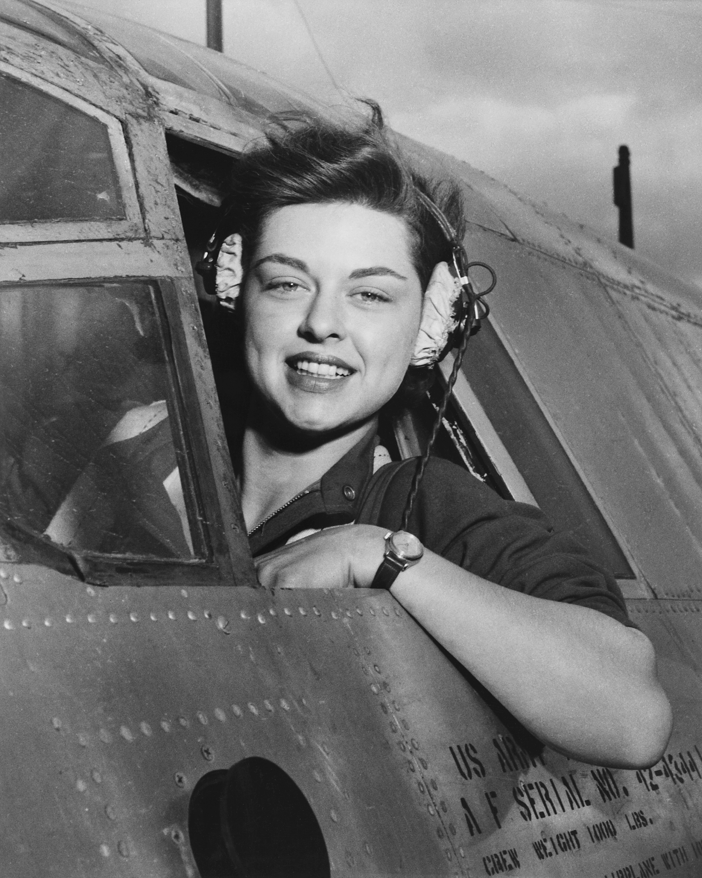 Harlingen Army Air Field, Texas--Elizabeth L. Remba Gardner of Rockford, Illinois, WASP (Women's Airforce Service Pilots), Class: 43-W-6, takes a look around before sending her plane streaking down the runway at the Harlingen Army Airfield, Texas, ca. 1930–1975. Note: Almost certainly this dates from 1942–1944, part of project of having women pilots move aircraft on the home front to free up more male pilots for combat duty. There is a cropped image with the same file name.